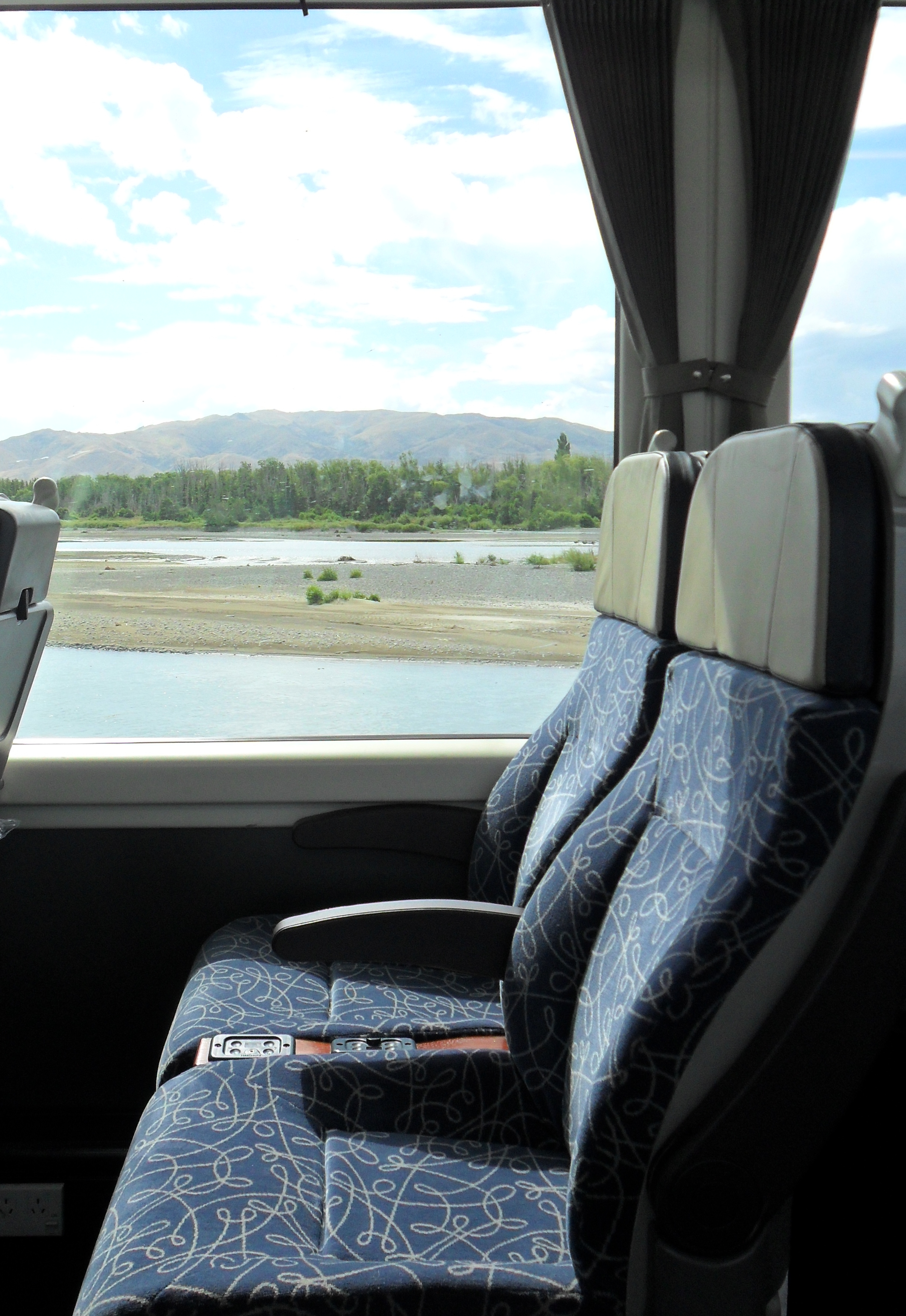 Passenger seats in a New Zealand AK-class rail coach